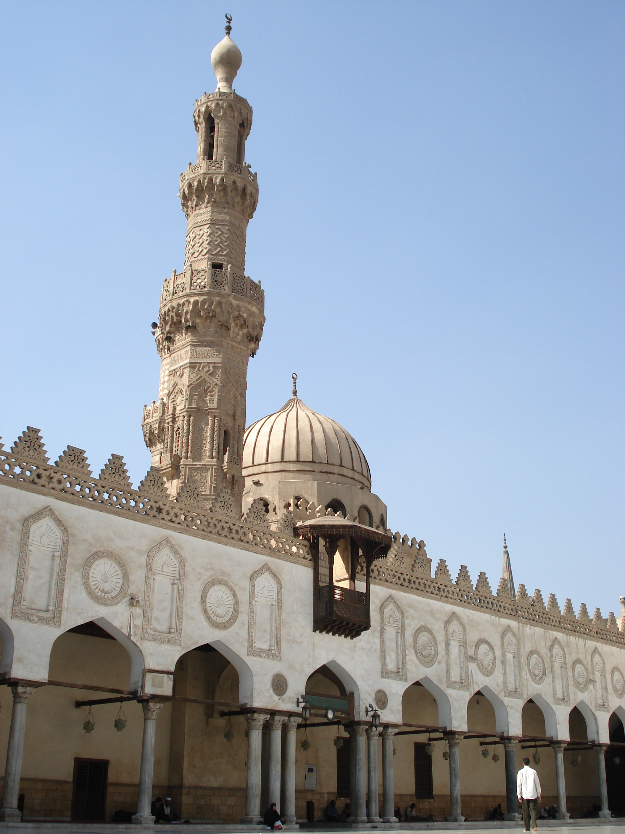 This is a view of the dome and minaret as seen when standing in the inner courtyard of the Al-Azhar University